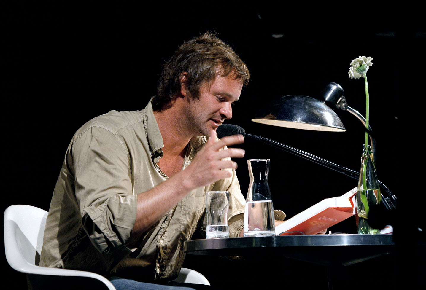 Writer Clemens Berger; reading at the literary festival O-Töne at the Museumsquartier in Vienna